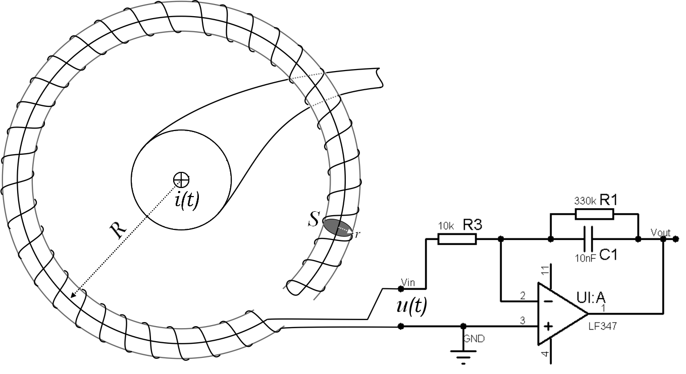 Schematic drawing of a Rogowski coil used as an AC current sensor, and connected to an integrator circuit to obtain an output voltage proportional to the instantaneous value of the current i(t)